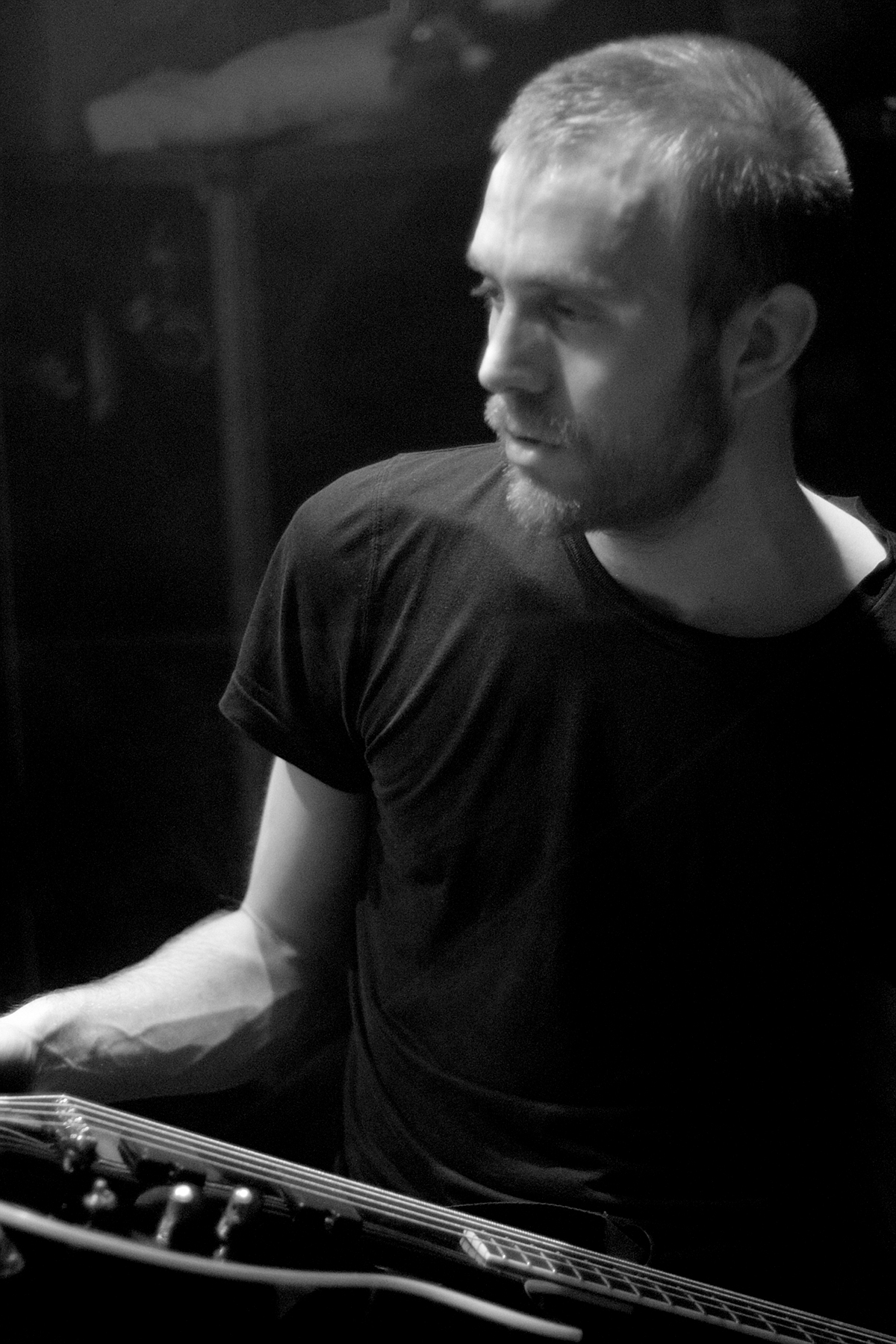 Simon Wright of 65daysofstatic